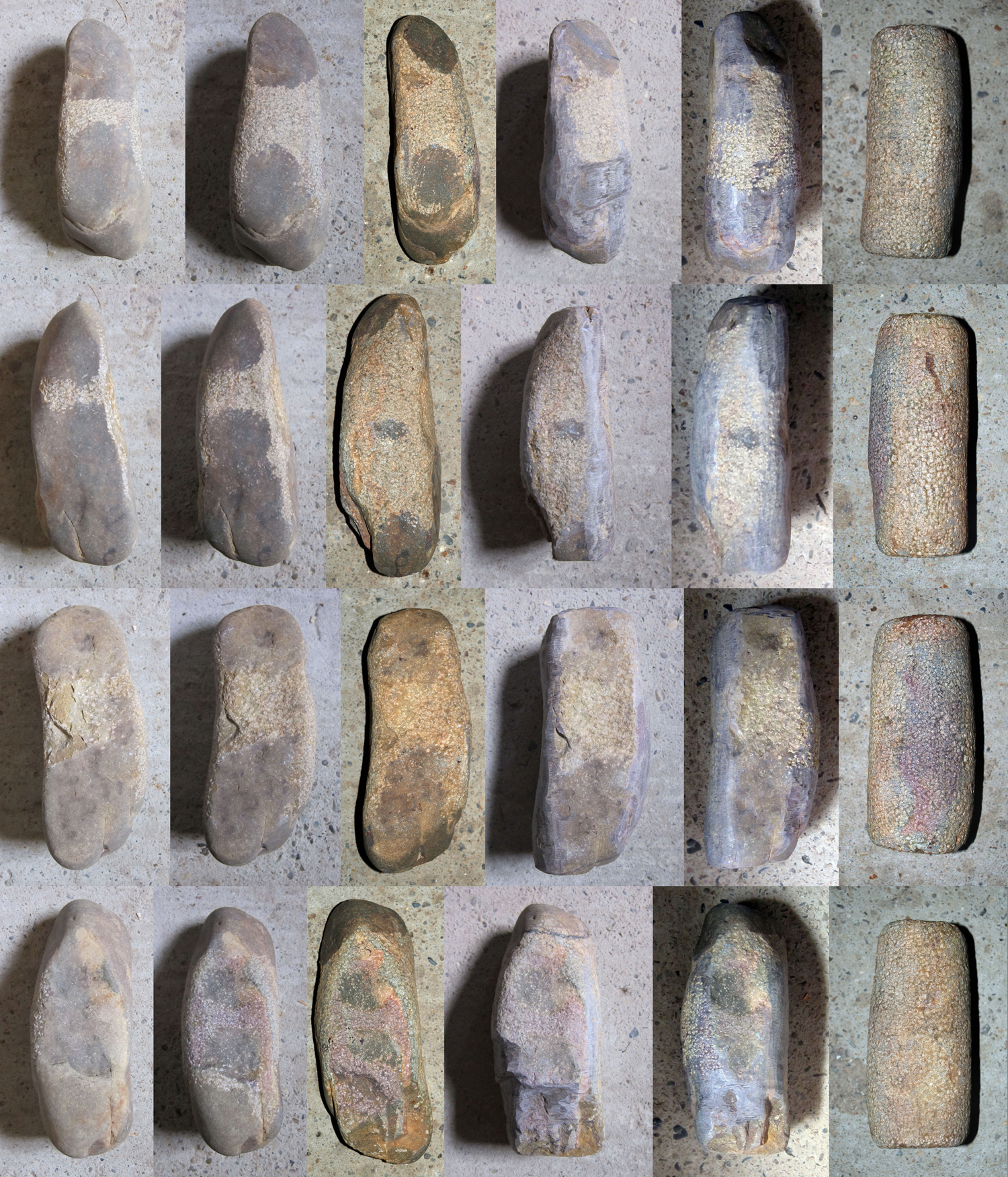 Chana a Morrillo.